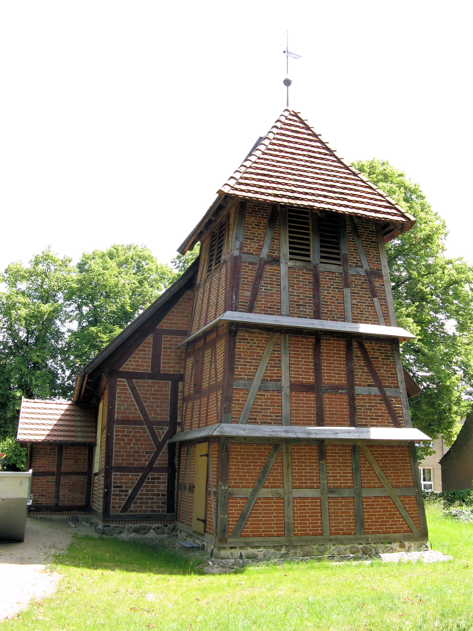 Church in Matzlow, disctrict Parchim, Mecklenburg-Vorpommern, Germany